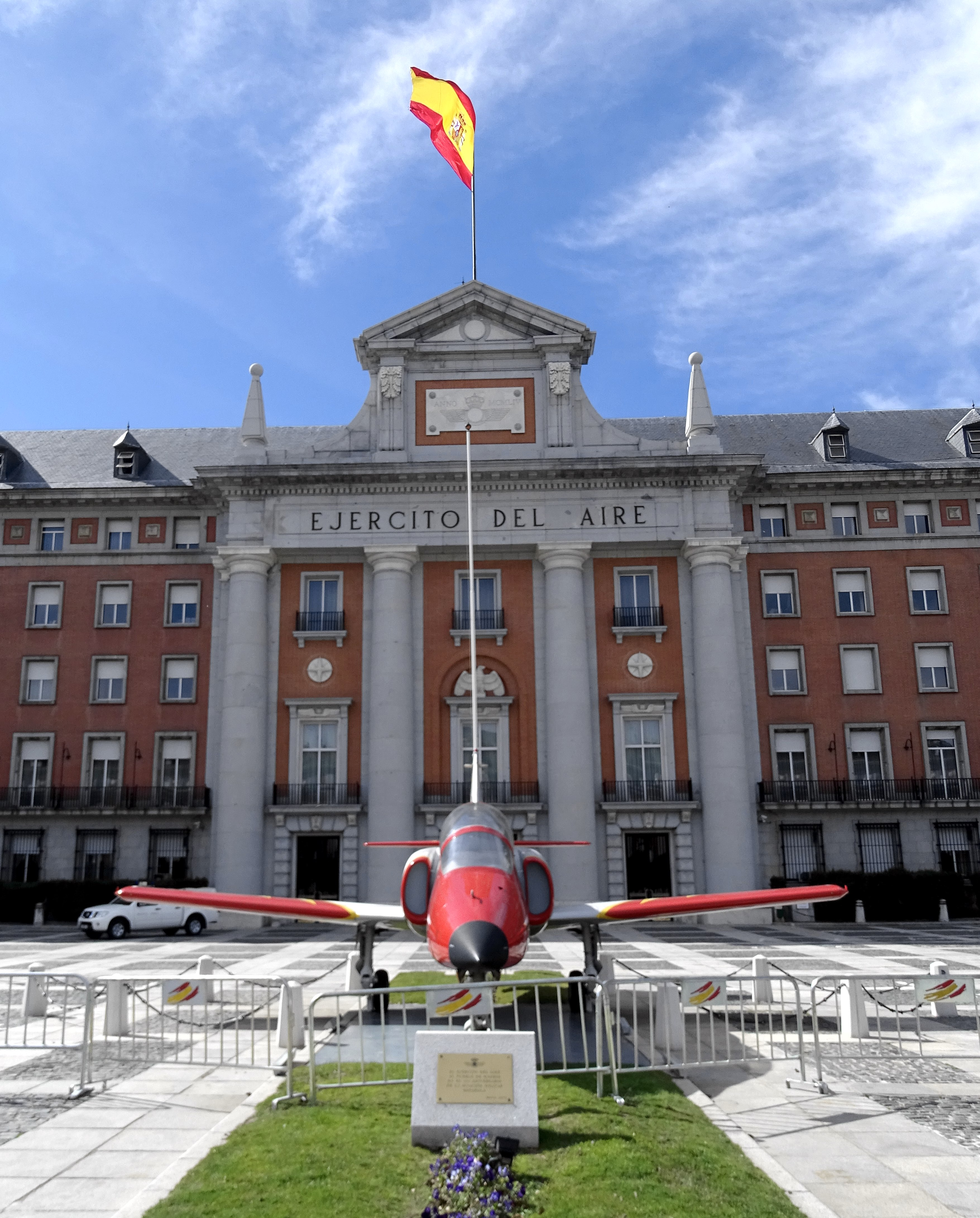 Headquarters of the Spanish Air Force, in Madrid. Building was projected in 1942 by architect Luis Gutiérrez Soto and built between 1942 and 1954.